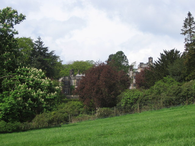 Thornbridge Hall Derbyshire This house was built in the 19th century by a Sheffield industrialist. Until the Beeching cuts it had its own railway station. OSGB36: geotagged! SK 198 709 [100m precision] WGS84: 53:14.0861N 1:42.2891W